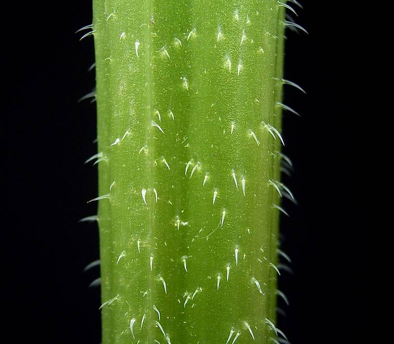 Symphytum officinale